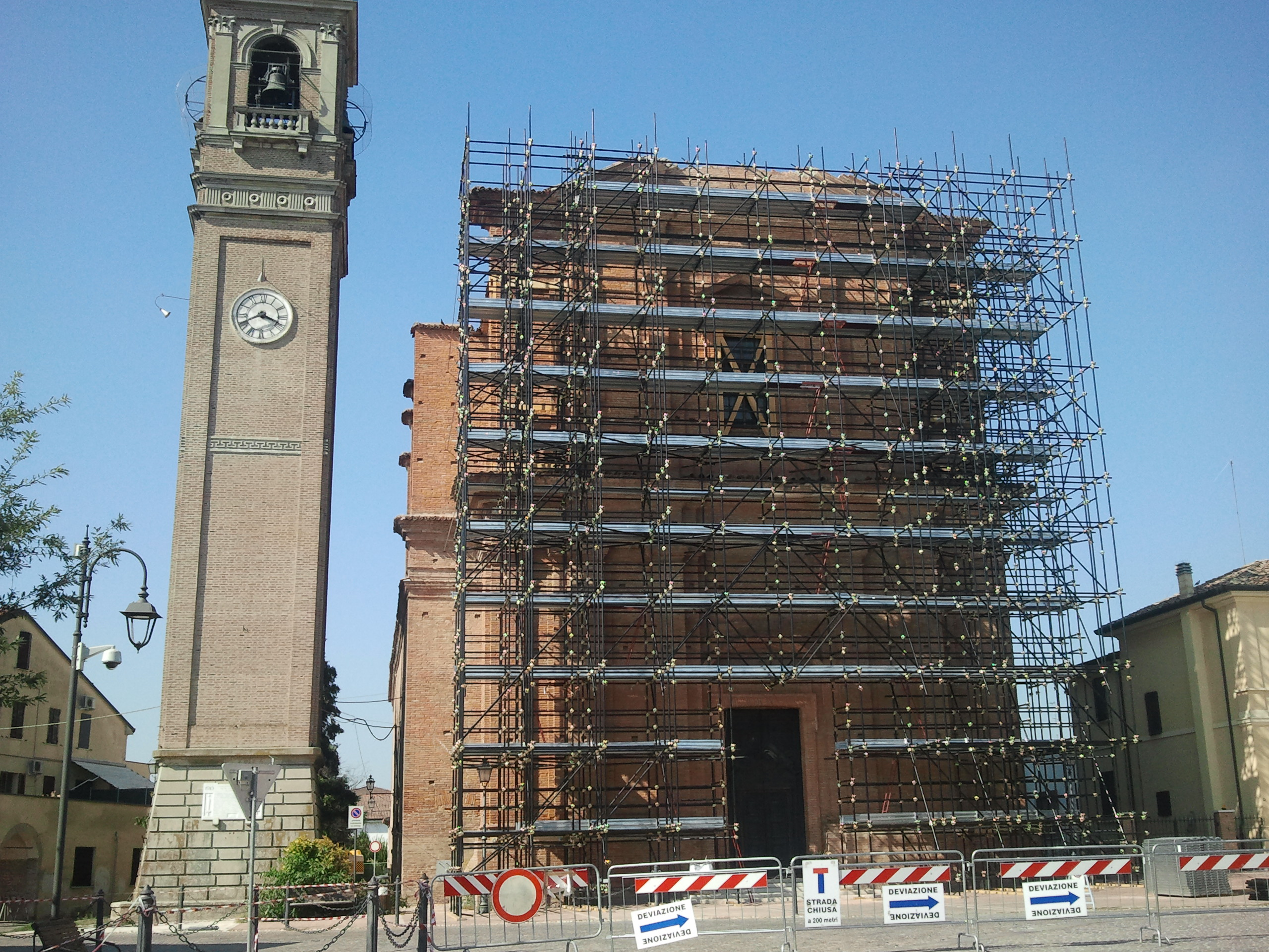 San Giacomo delle Segnate (MN), after the earthquake